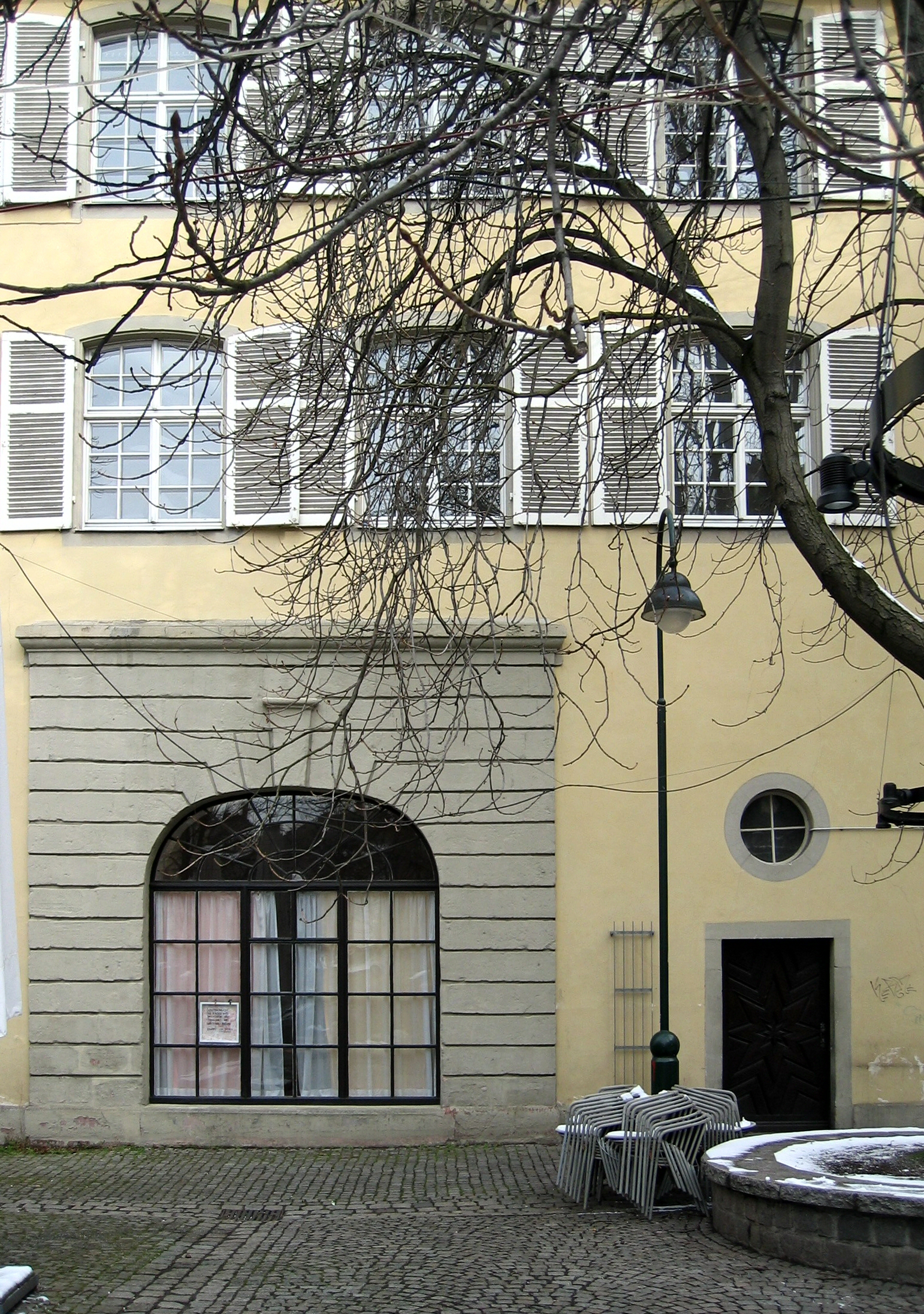 Description: The Breisach gate is one of the rare remainders of Vauban's fortified Freiburg Source: self-made Date: 28.01.2008 Author: Manfredjohannes